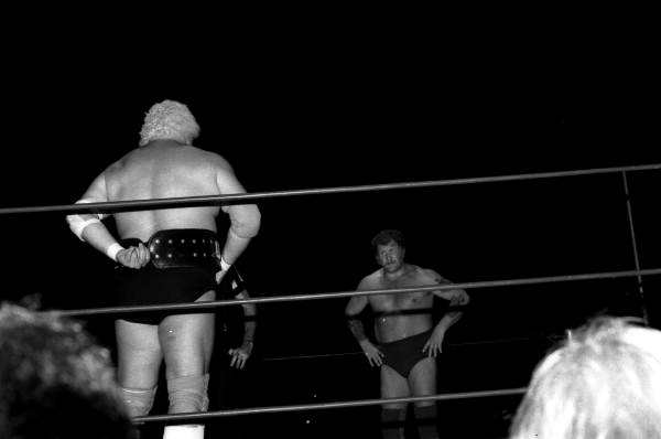 Dusty Rhodes and Harley Race face off before a match